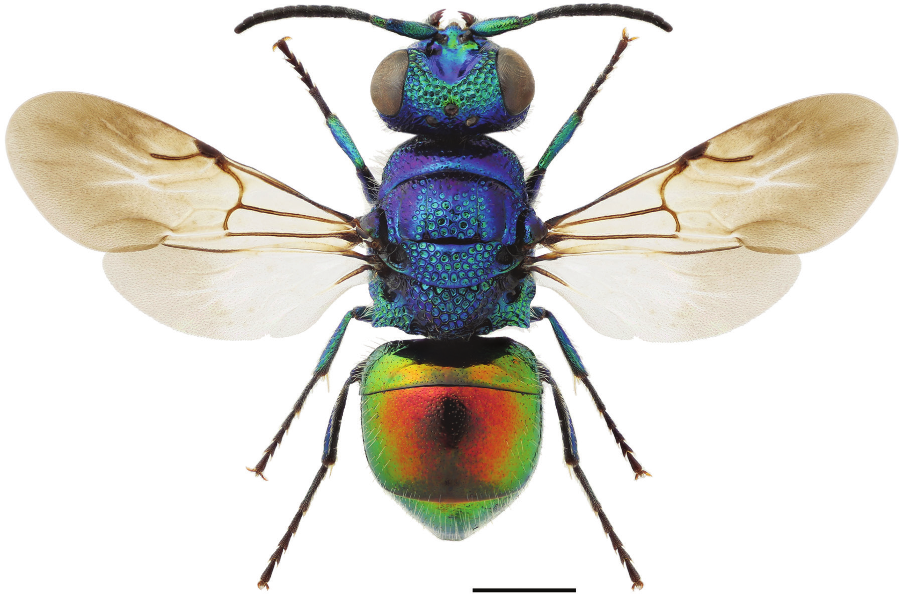 Pseudomalus auratus with 1 mm scale.